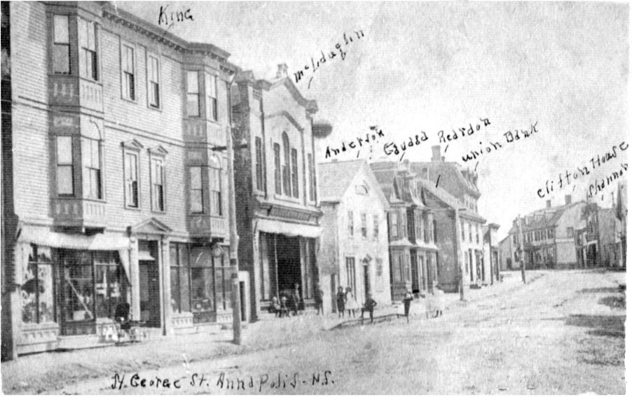 The Sinclair Inn is labelled “Anderson” in this vintage picture of the oldest main street in Nova Scotia, Lower St. George Street, in Annapolis Royal. The building to the inn’s immediate right no longer exists.